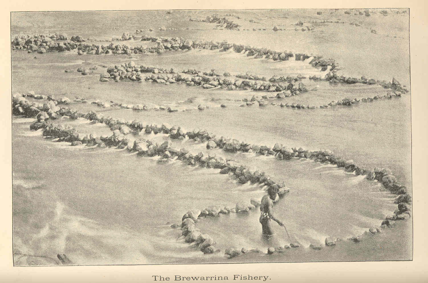 Brewarrina Fishery Subject: Australian aborigines--New South Wales--Fisheries, Brewarrina (New South Wales) Geographic Subject: Australia--New South Wales--Brewarrina Tag: Traditional Fisheries